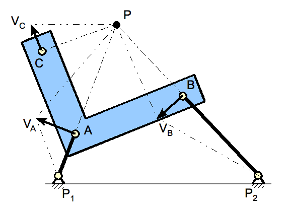 sketch used to clarify determination of intantaneous centres of rotation, P, P1, and P2; also represented are three points A, B, and C, and the associated velocity vectors VA, VB, and VC.